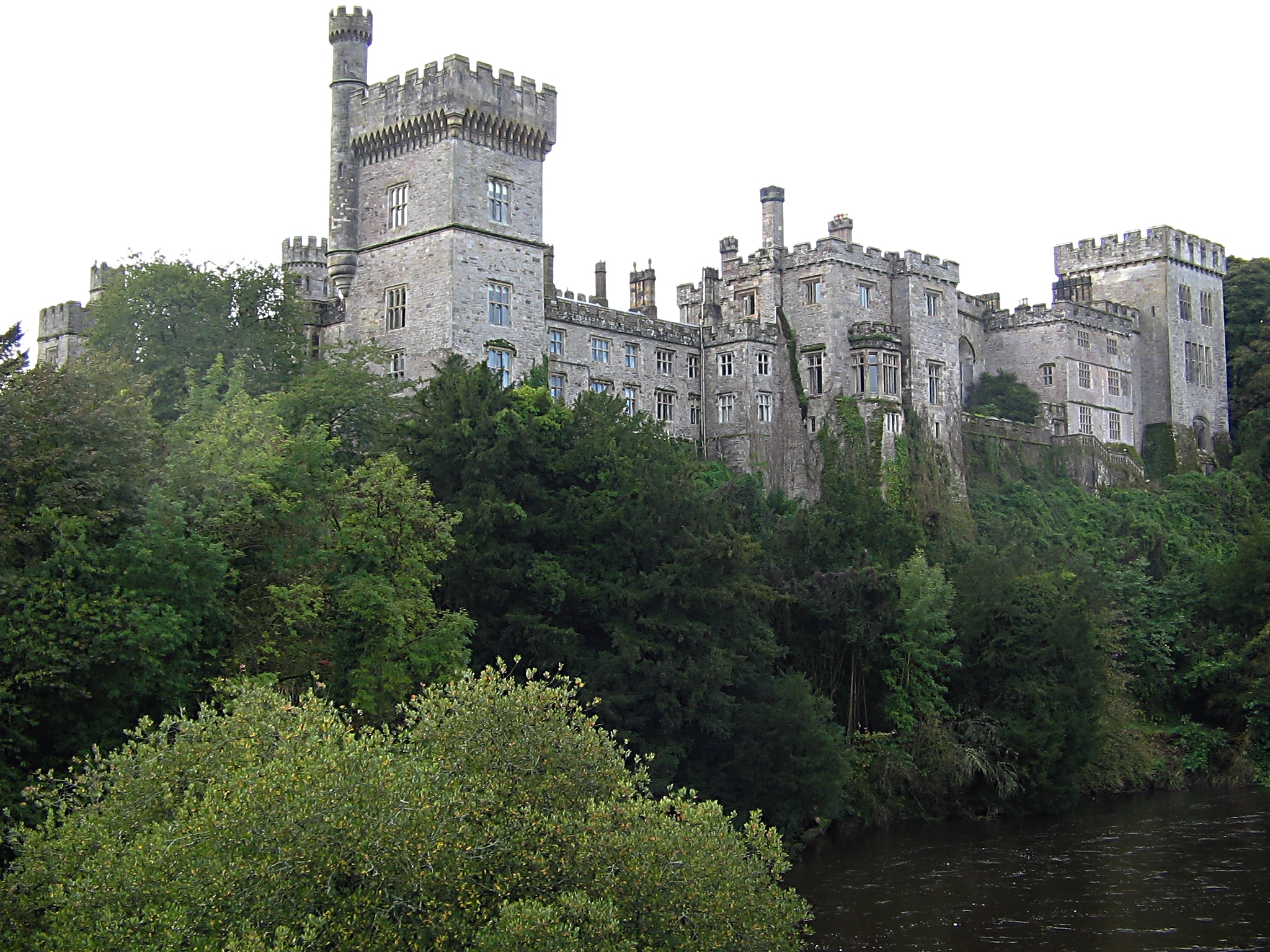 Photograph, taken by me, of Lismore Castle, Lismore, Co. Waterford, Republic of Ireland